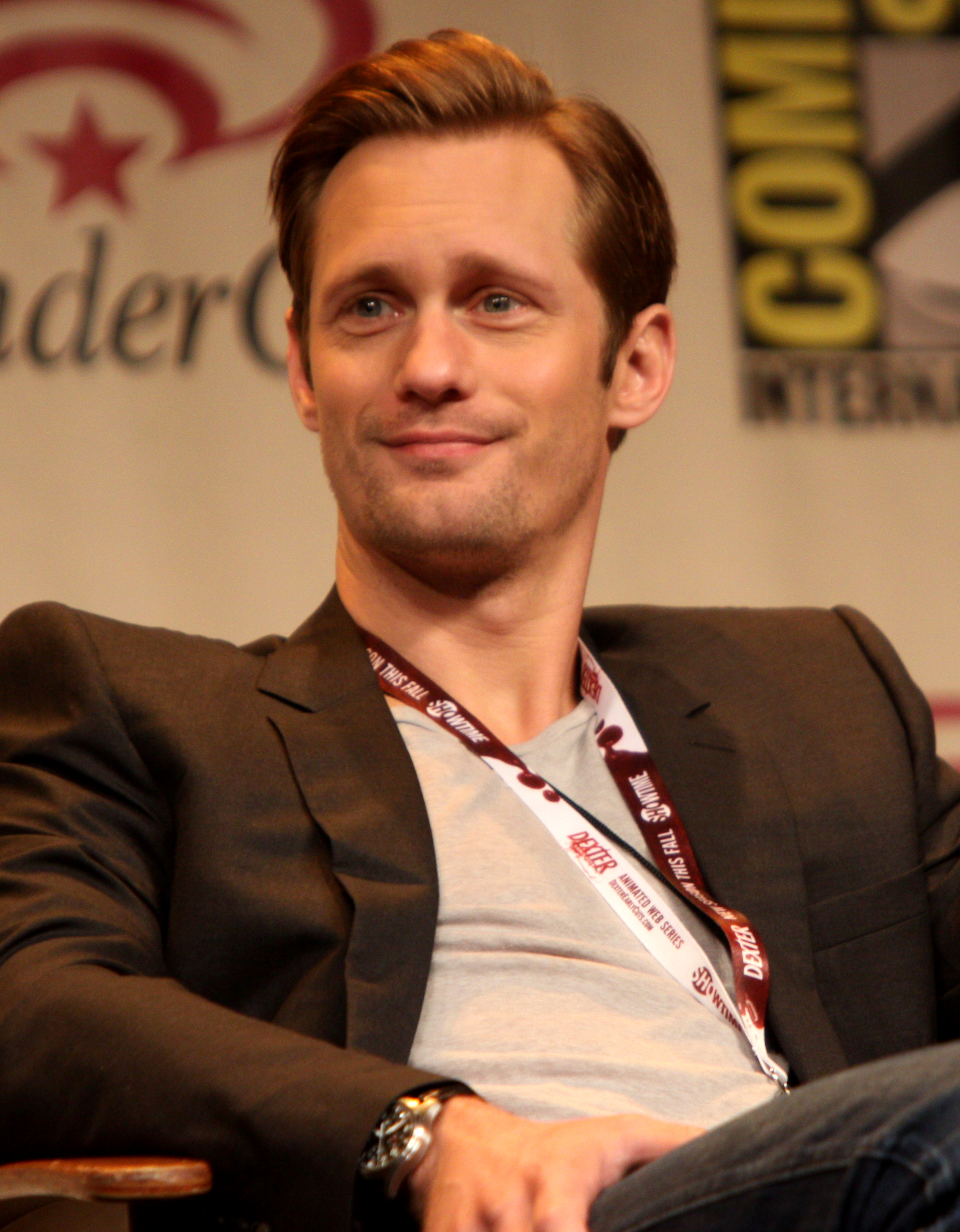 Alexander Skarsgård speaking at Wondercon 2012 in Anaheim, California on March 17, 2012.